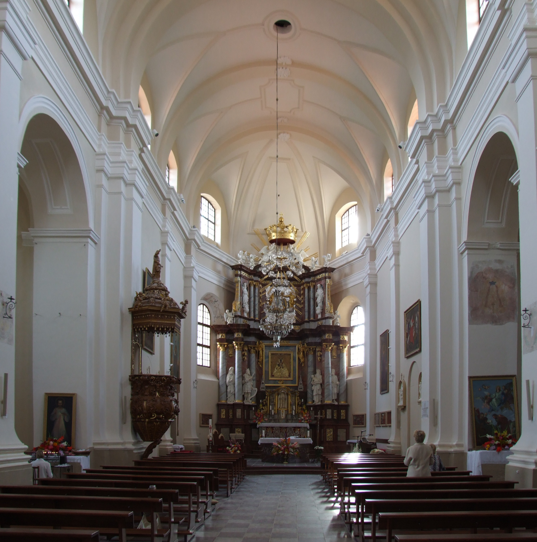 Church of Visitation of Holy Virgin Mary - interior